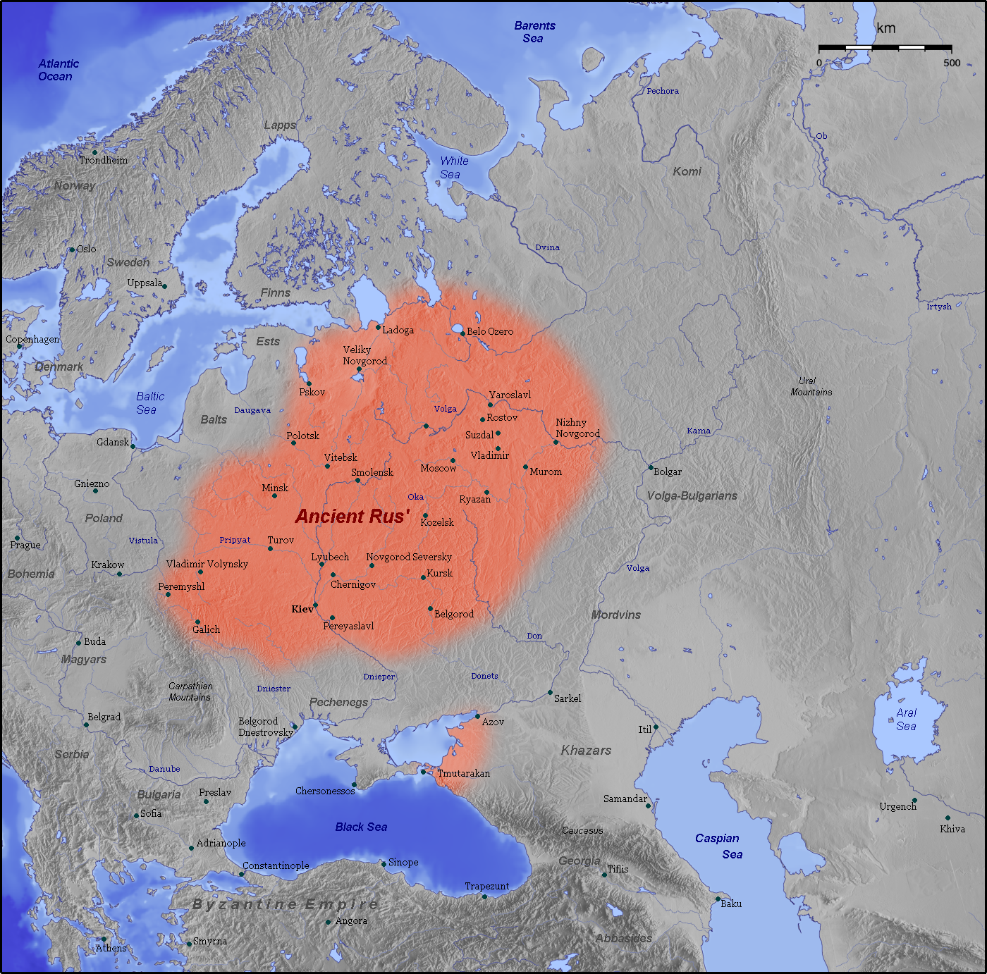 Map of Ancient Rus civilization